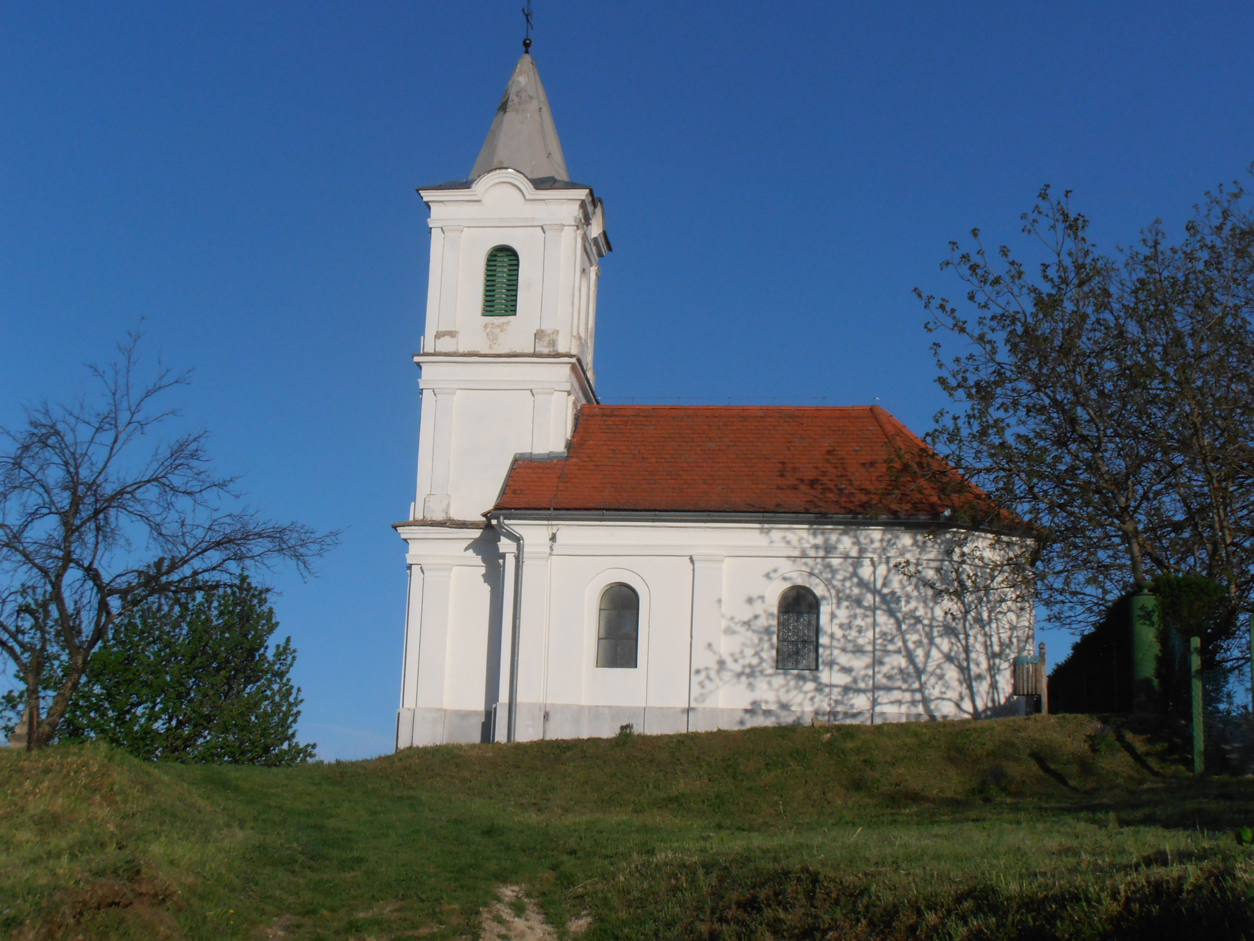 Szent Donát Chapel, Zalaszántó, Hungary Szt. Donát szőlőhegyi kápolna Zalaszántón